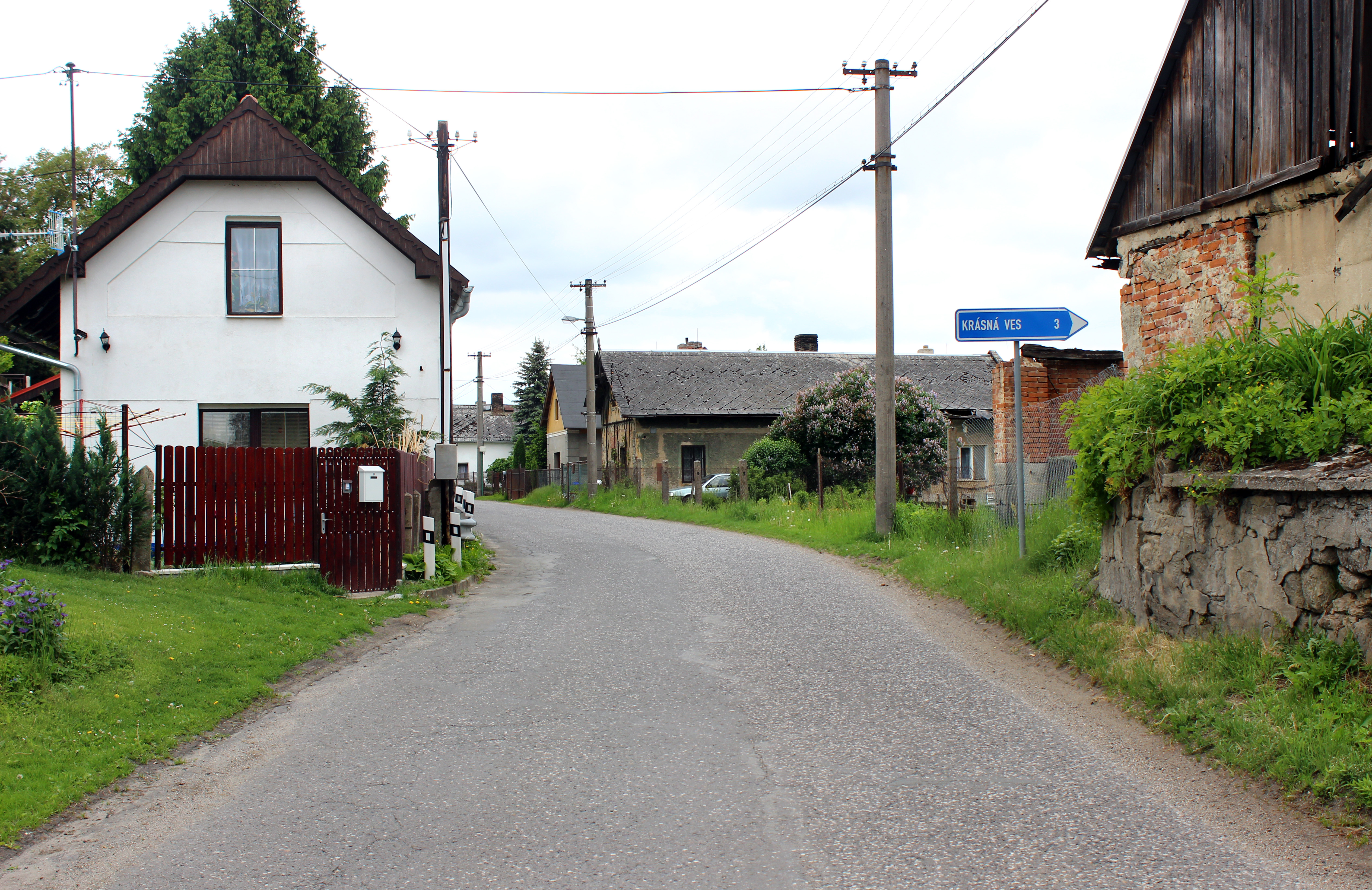 South part of Kovanec, part of Kovanec, Czech Republic